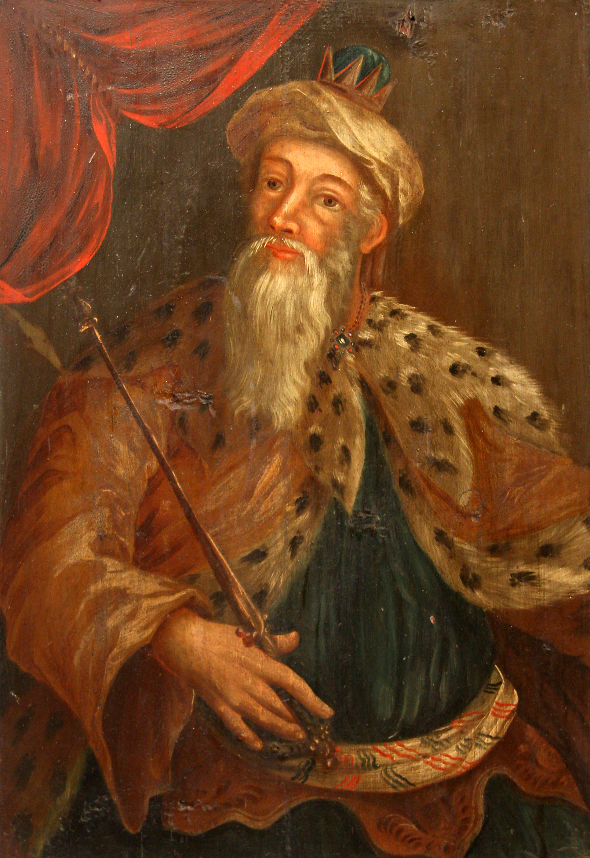 King Asa on a 17th century painting by unknown artist in the choir of Sankta Maria kyrka in Åhus, Sweden.